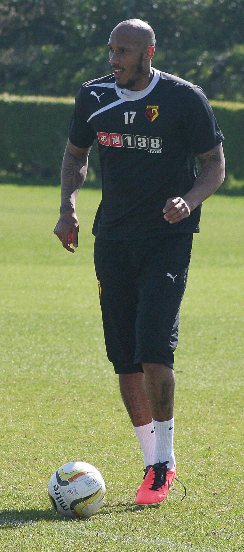 Hall in training, April 2014.